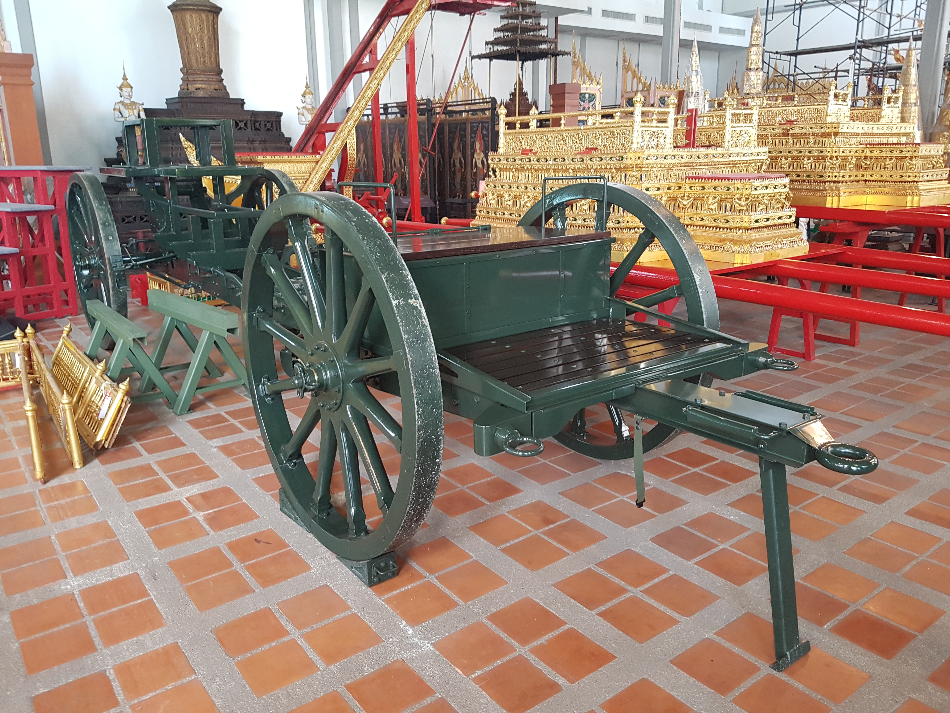 Place: Chariot Hall, Bangkok National Museum, Bangkok, Thailand. Item: A royal gun carriage (ราชรถปืนใหญ่) built for the funeral of King Bhumibol Adulyadej in 2017.